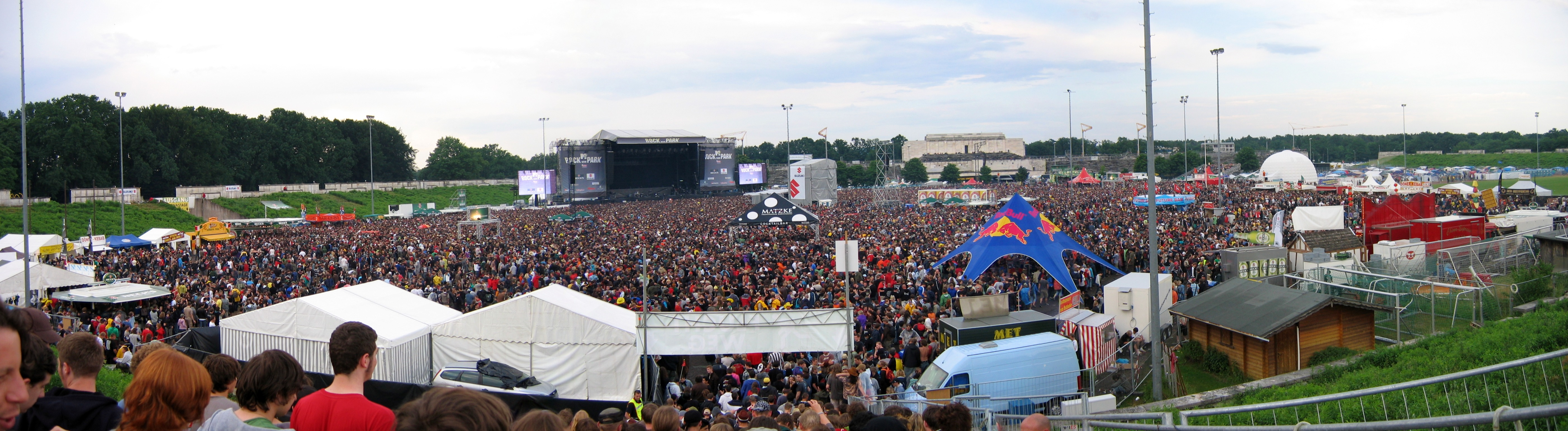 A panorama of Rock im Park festival main stage, located in the Zeppelin Field, Nuremberg, Germany. The picture is a combination of photos made by Canon Powershot A80 taken during the 2008 event.